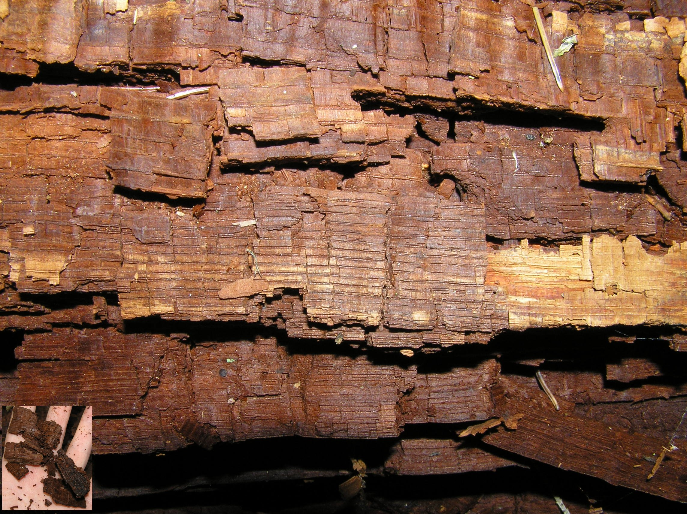 Cubical rot, checked, on quercus, Białowieża forest, Poland